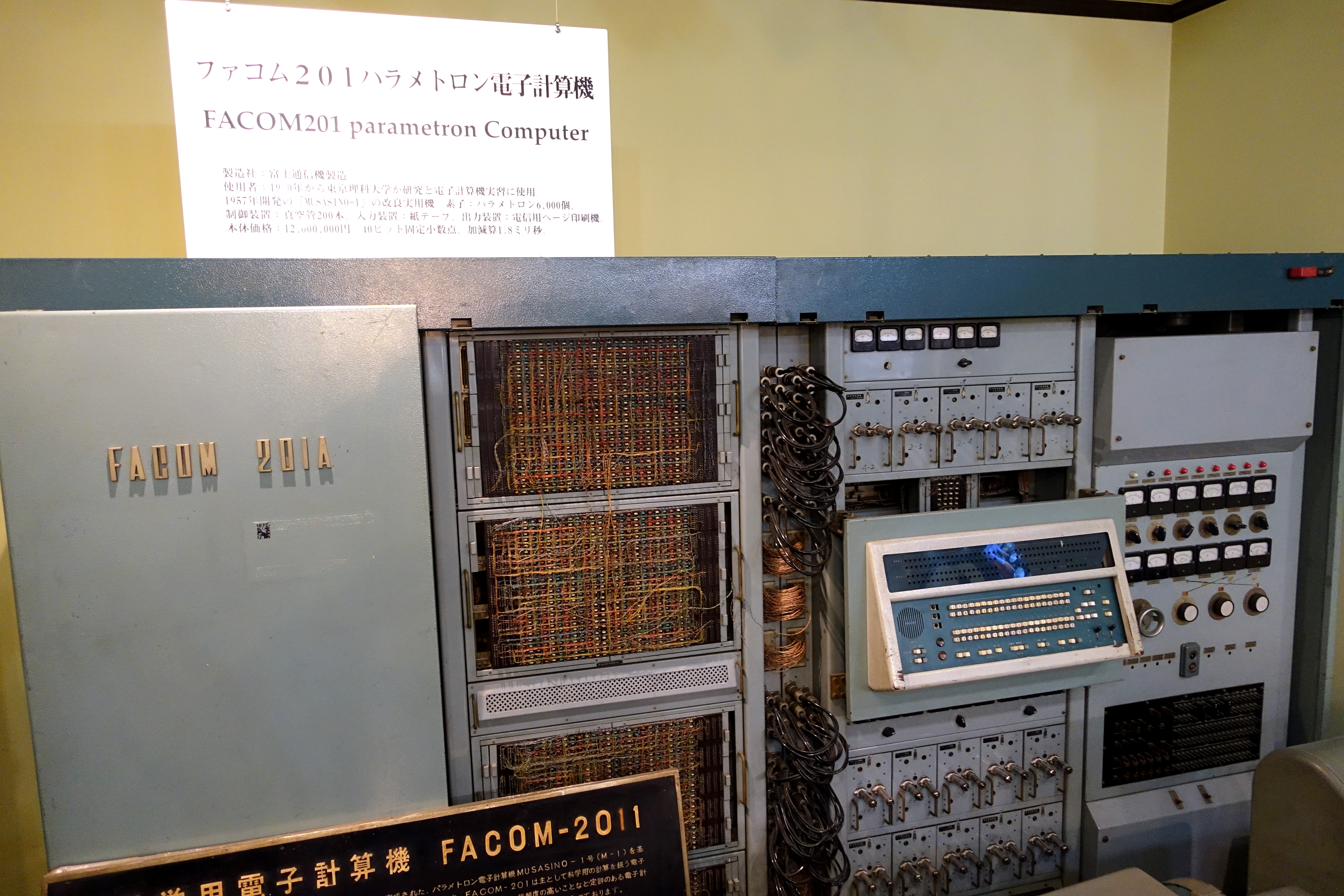 Exhibit in the Ridai Museum of Modern Science, Tokyo University of Science, Kagurazaka campus - 1-3 Kagurazaka, Shinjuku-ku, Tokyo.